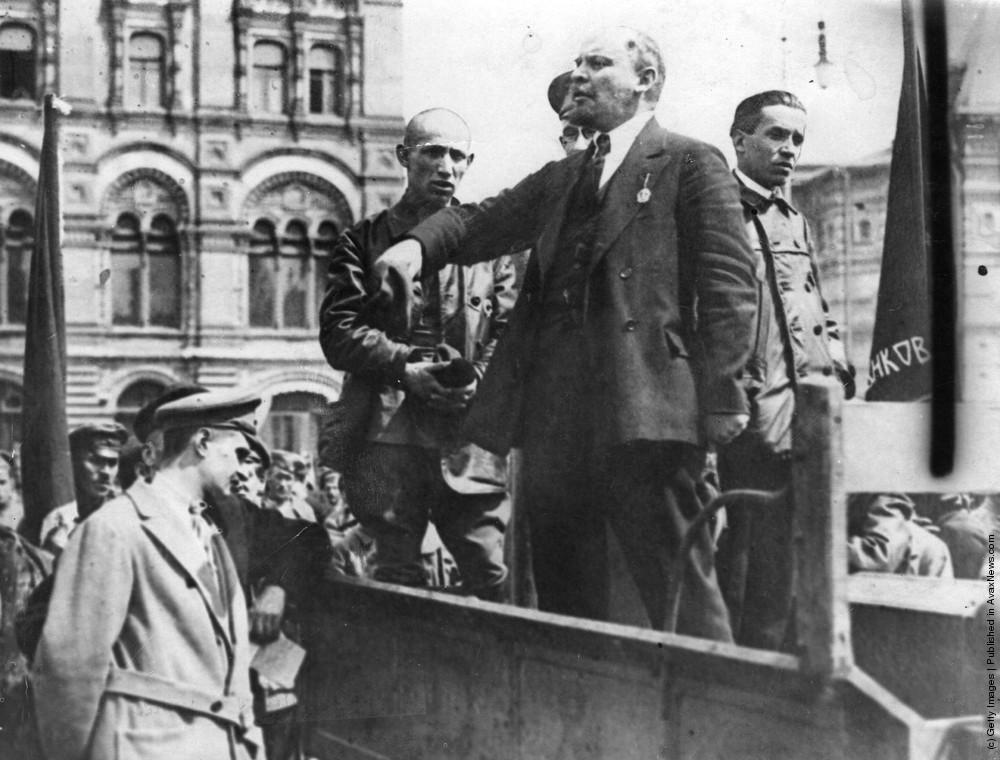 Lenin making a speech from the back of a vehicle before troops in the Red Square, 1919.